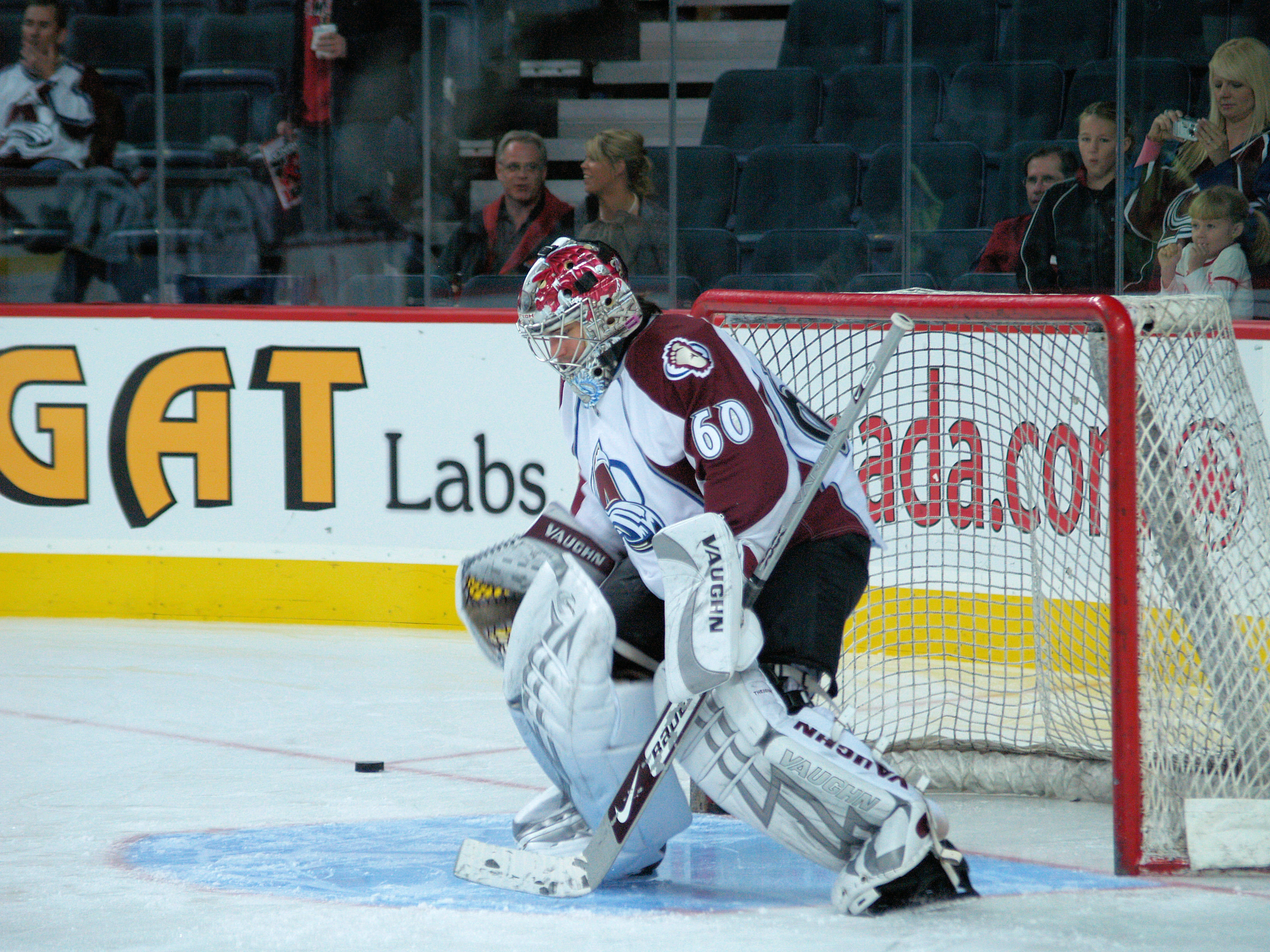 Jose Theodore warming up before a game. Calgary, Alberta